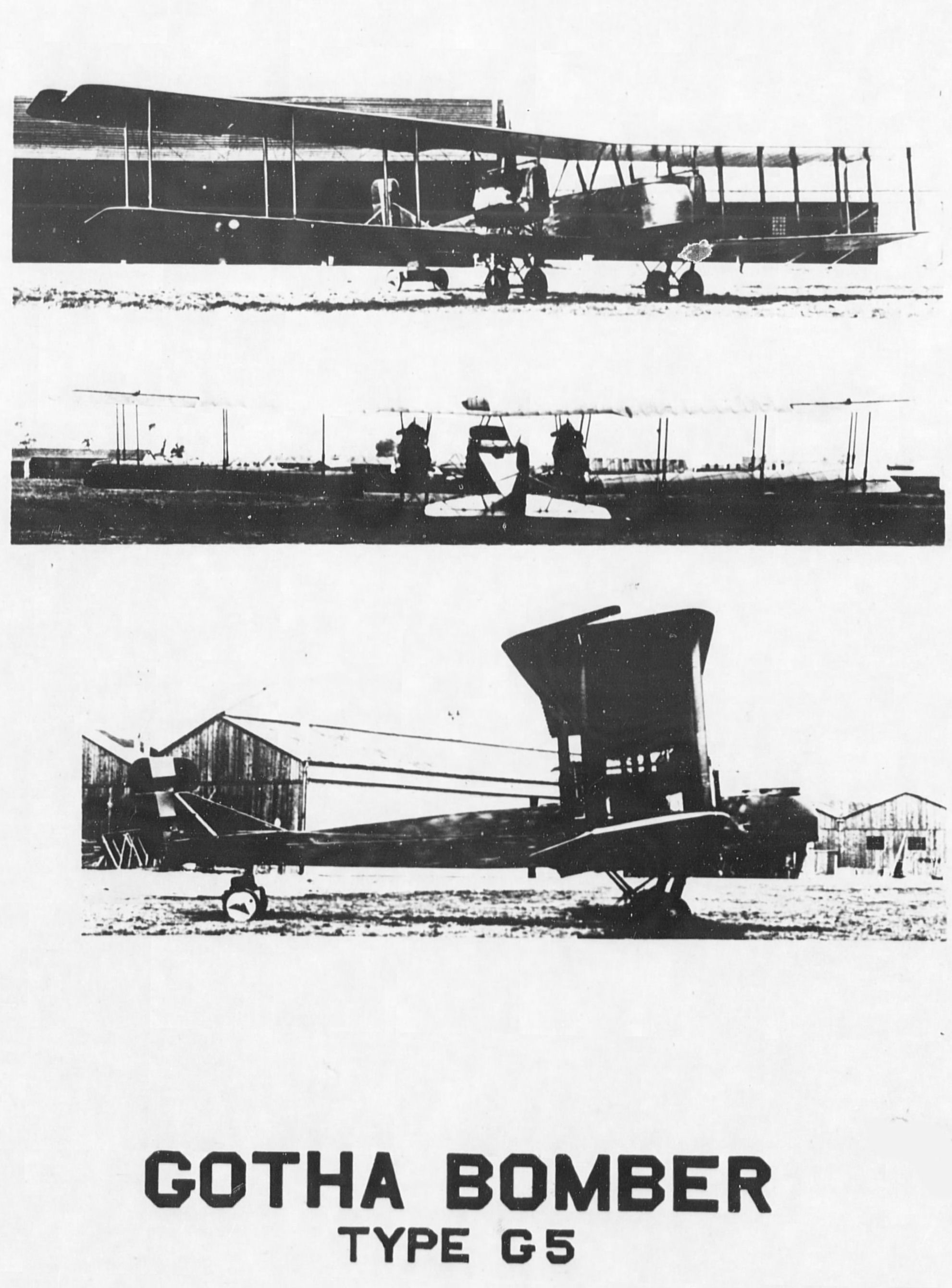 Captured Third Army German Gotha G.V, taken at Coblenz Aerodrome, Germany